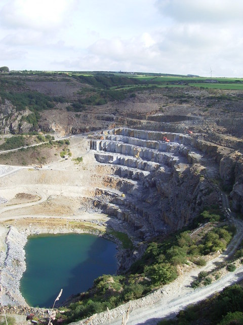 Delabole Slate Quarry, North Cornwall, England